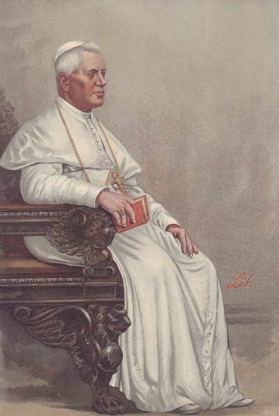 Caricature of His Holiness Pope Pius X.